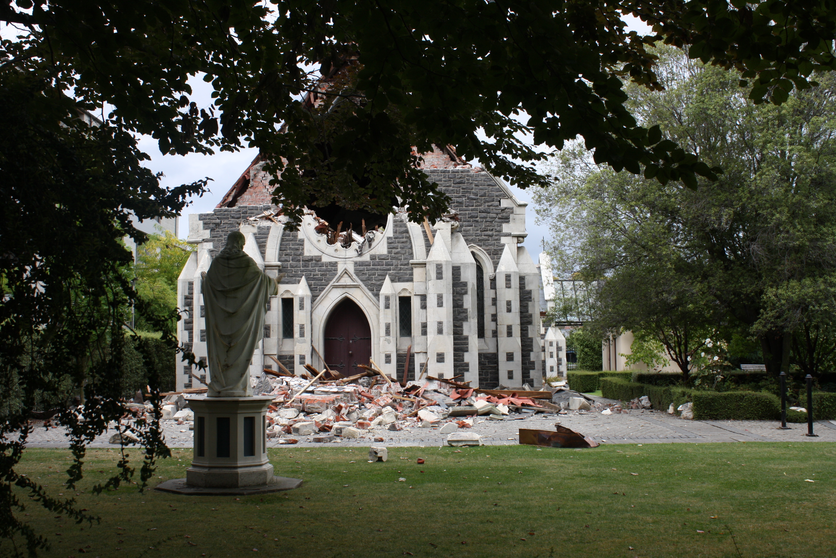 Rose Chapel on 25 February 2011.